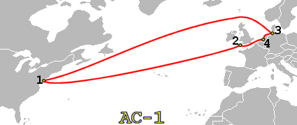 Route of the AC-1 Submarine communications cable. It has landing points in: 1) Brookhaven Cable Station in Shirley, New York, USA 2)Land's End Cable Station in Whitesands, UK 3)Westerland Cable Station on Sylt, Germany 4) KPN Telecom cable station, Beverwijk, Netherlands For more information about the numbered landing points, see main article.